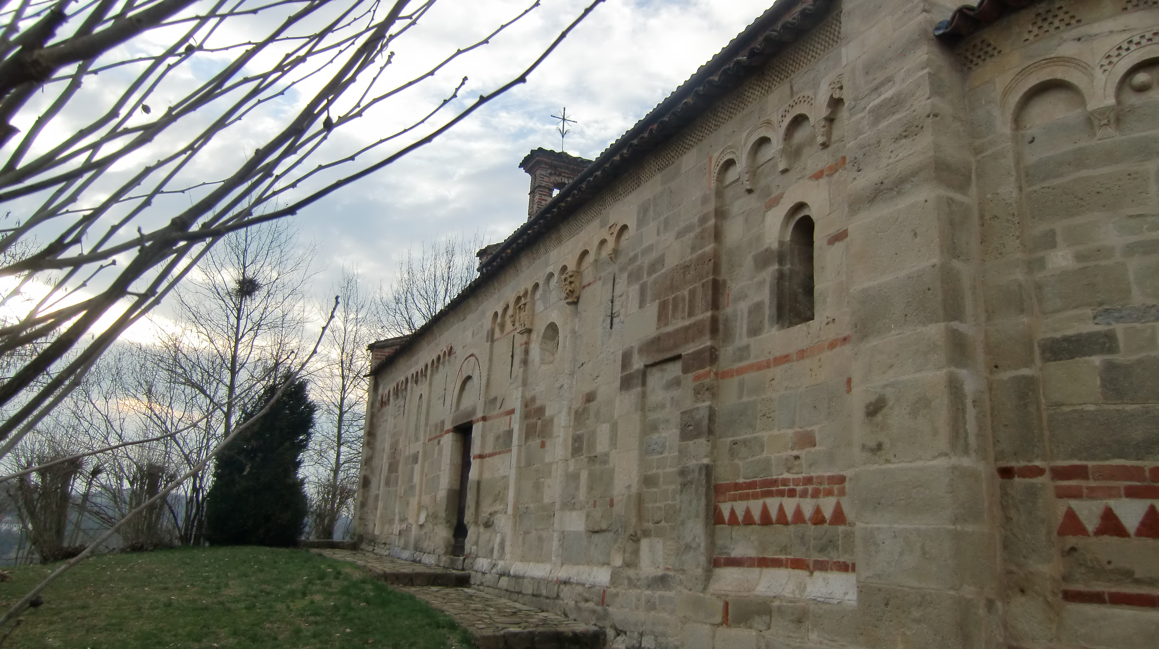 Chiesa di San Secondo, Cortazzone (AT), Italy, romanesque church, XII century, the south side